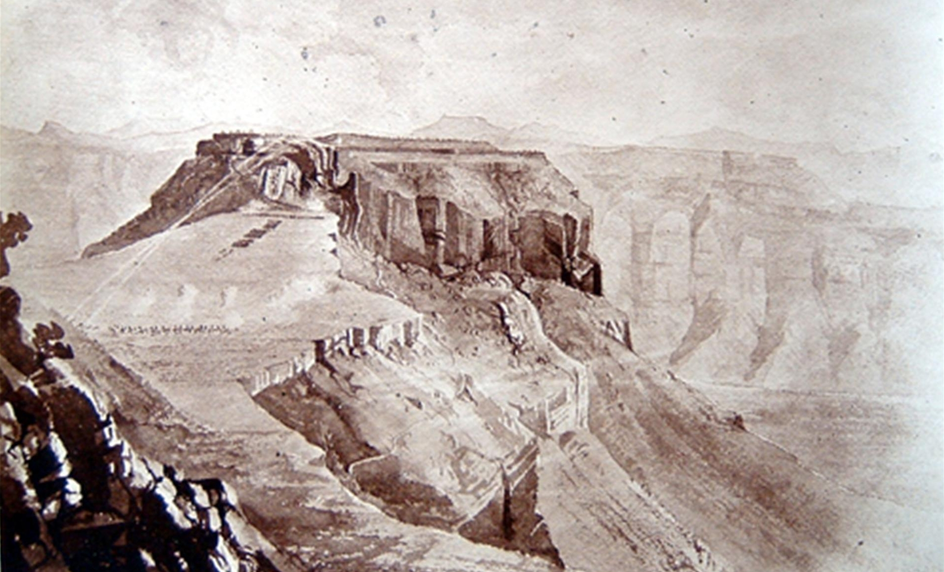 1868 Illustration of the British Army attack on Magdala Source=inherited family photo album, author unknown but dated April 14-18 1868 Author= unknown but deceased over 70 years ago